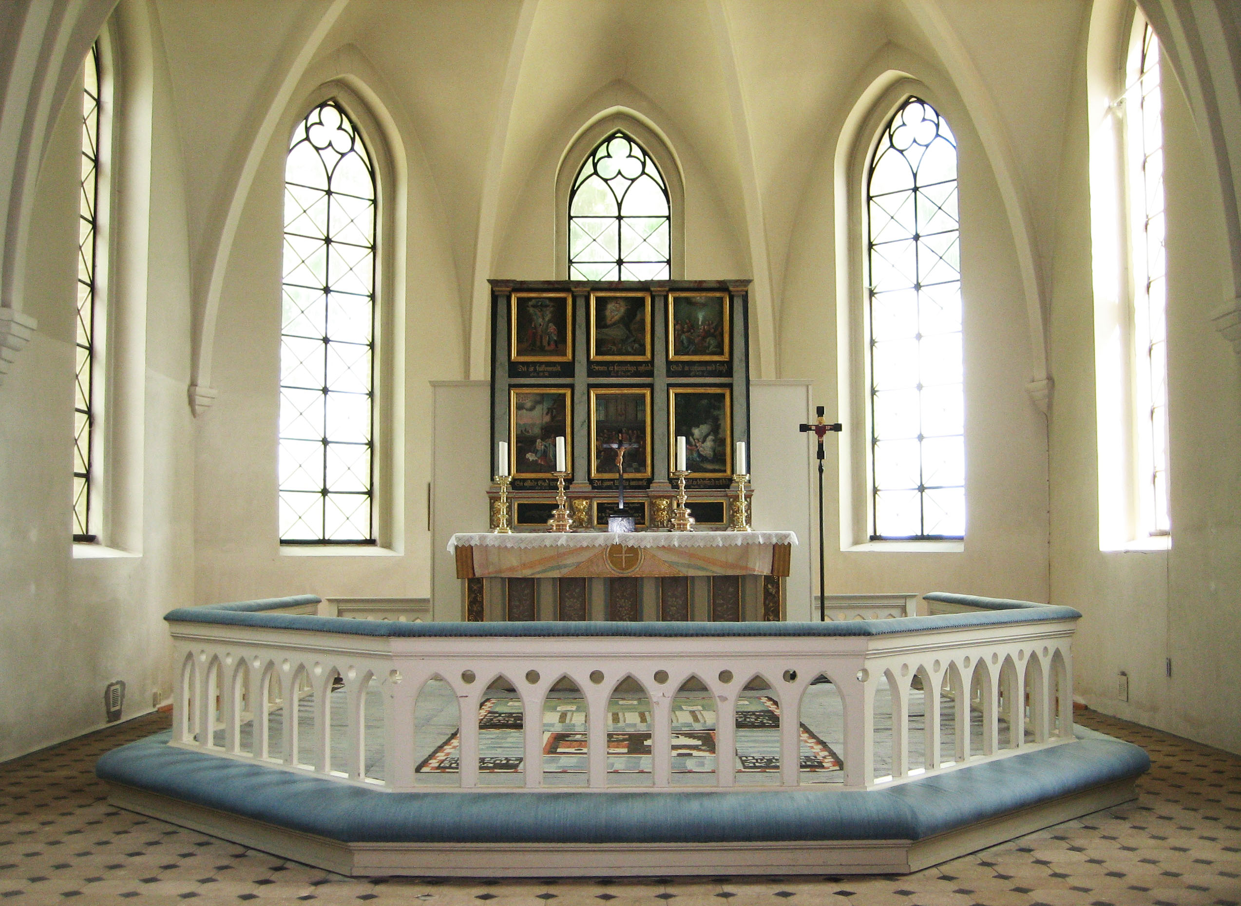 The altar of Uppåkra kyrka. Photo by the uploader.